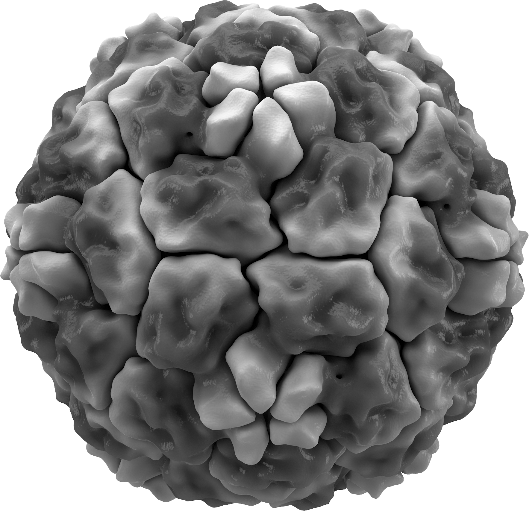 Isosurface of the capsid of human rhinovirus 14, one of the viruses which cause the common cold. Protein spikes are colored white for visual clarity. Note the icosahedral symmetry. Based on Protein Data Bank entry 4RHV. Rendered in Maxon Cinema 4D